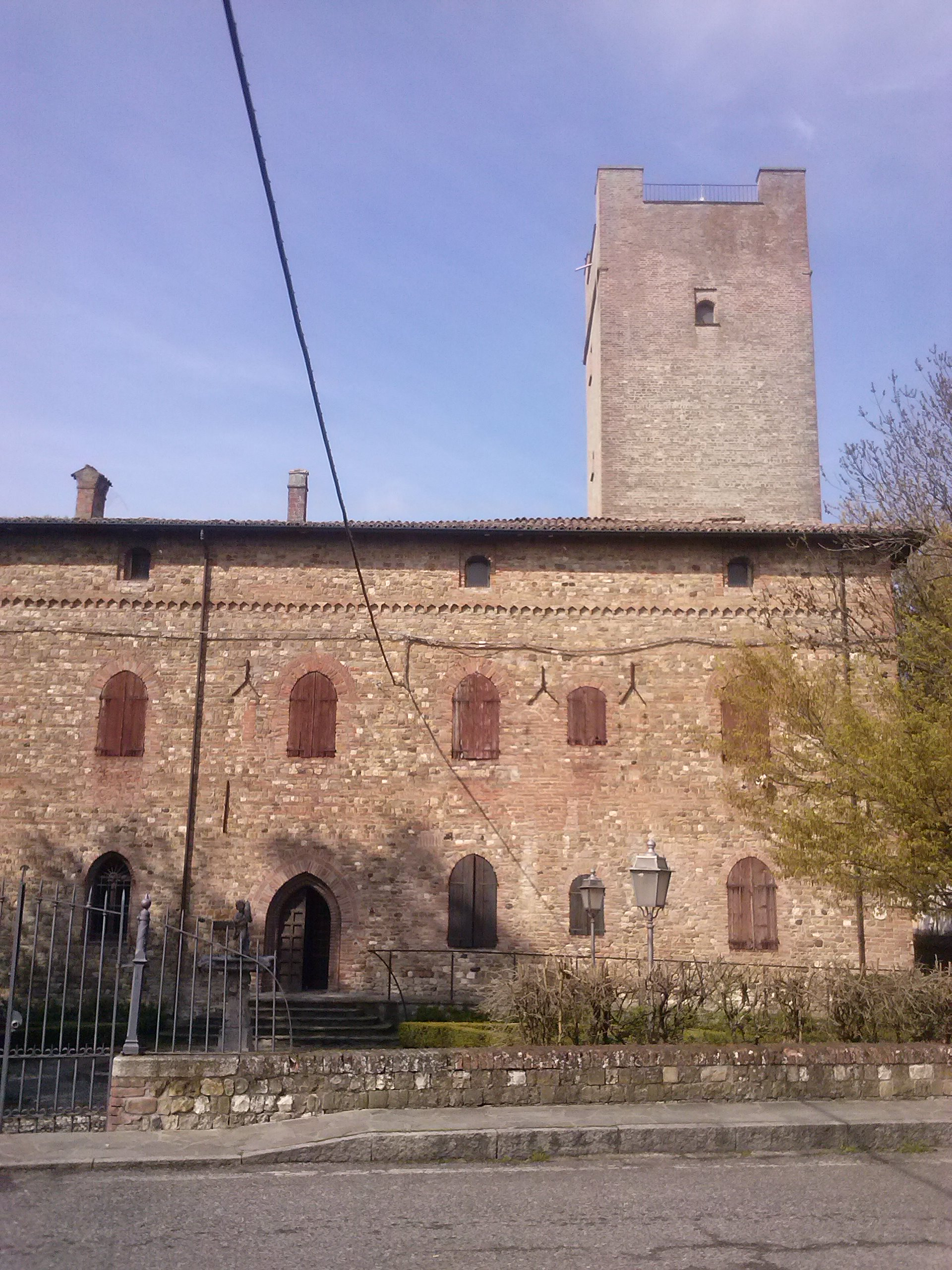 Castle of San Giorgio Piacentino (Piacenza, Italy)